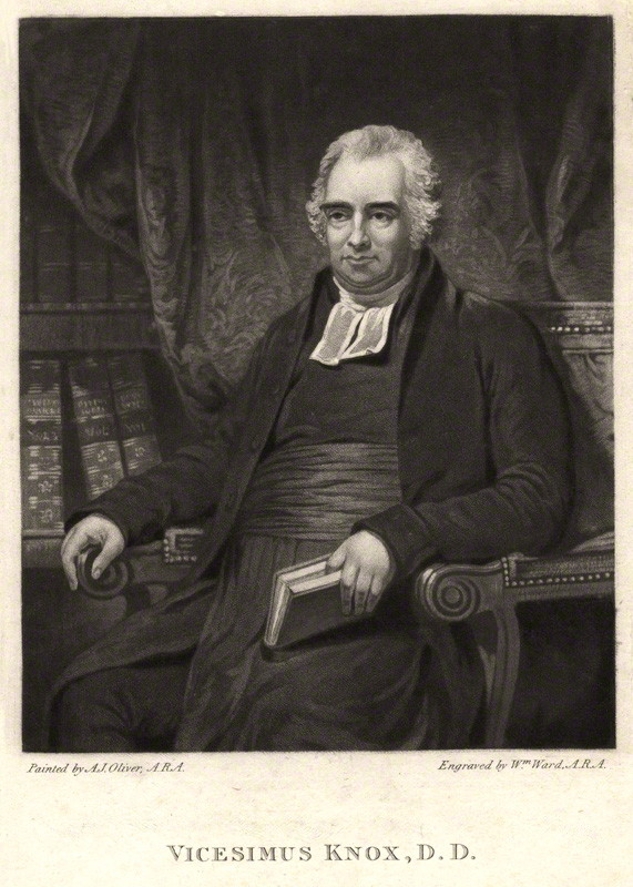 Portrait of Vicesimus Knox (1752–1821), English essayist, headmaster and Anglican priest.